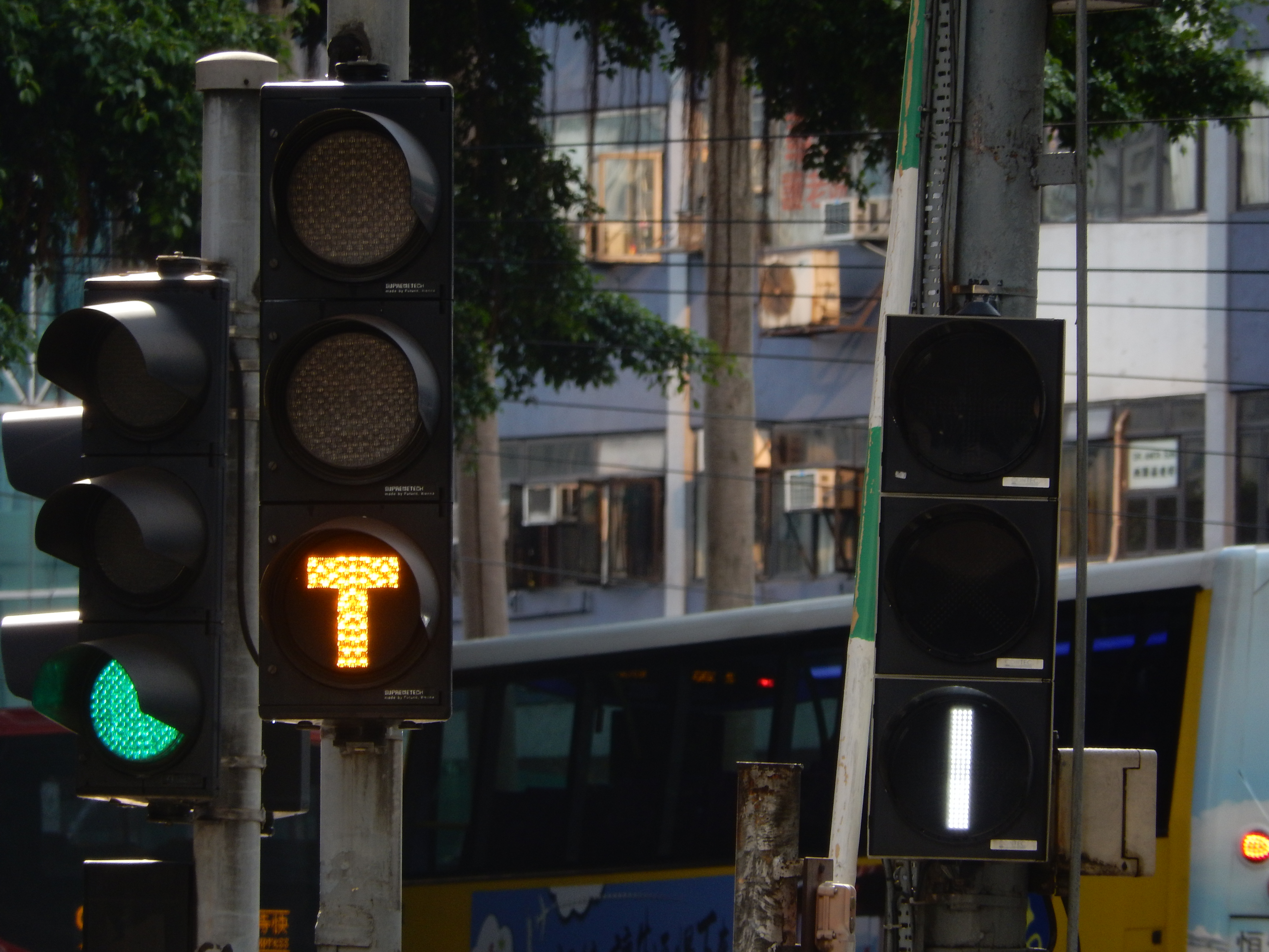 Tram traffic lights at a tram junction in Causeway Bay, Hong Kong